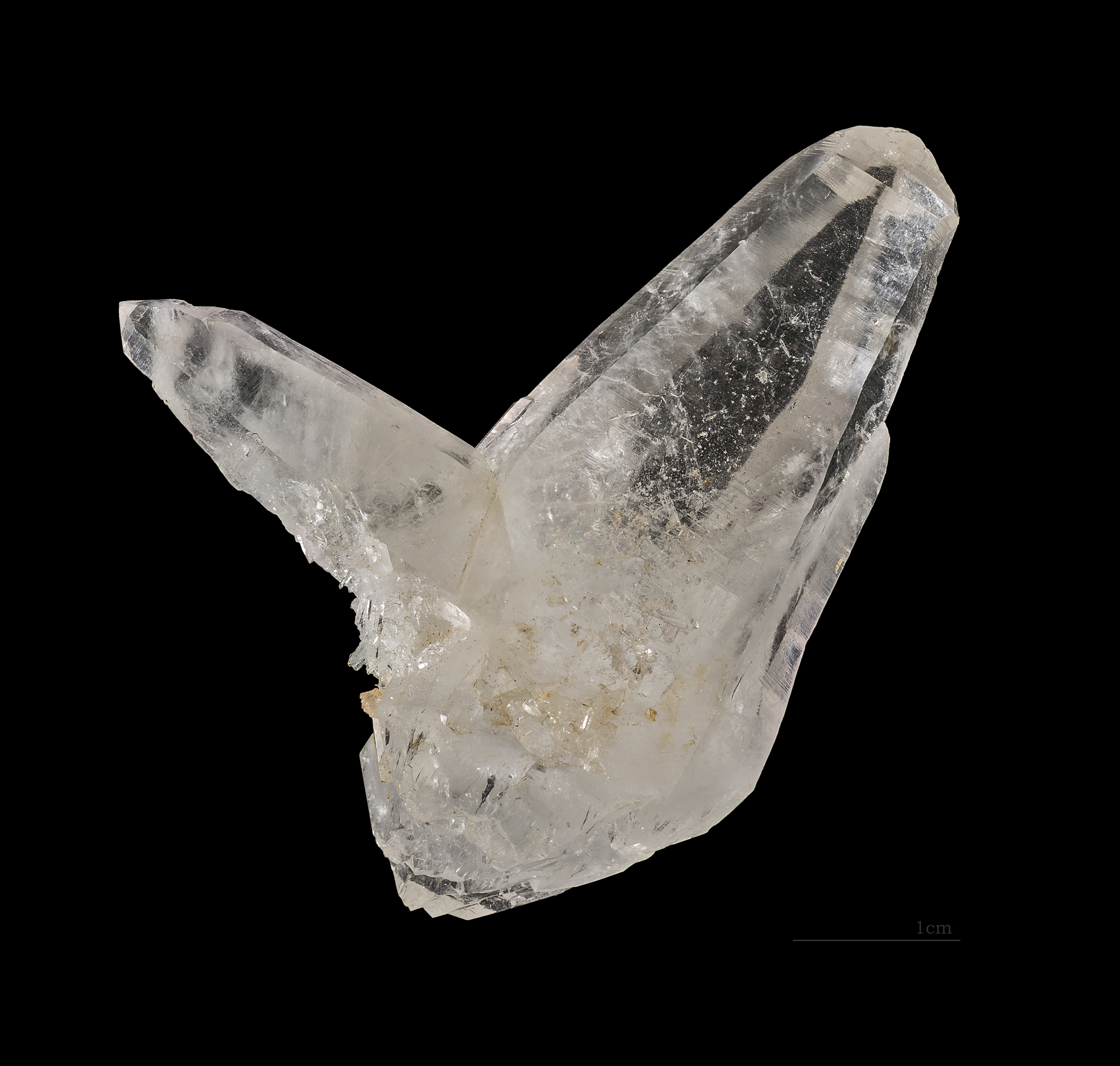 Quartz, Japan Twin Locality: Huaron Mines, Huaron Mining District, San Jose de Huayllay District, Cerro de Pasco, Daniel Alcides Carrión Province, Pasco Department, Peru